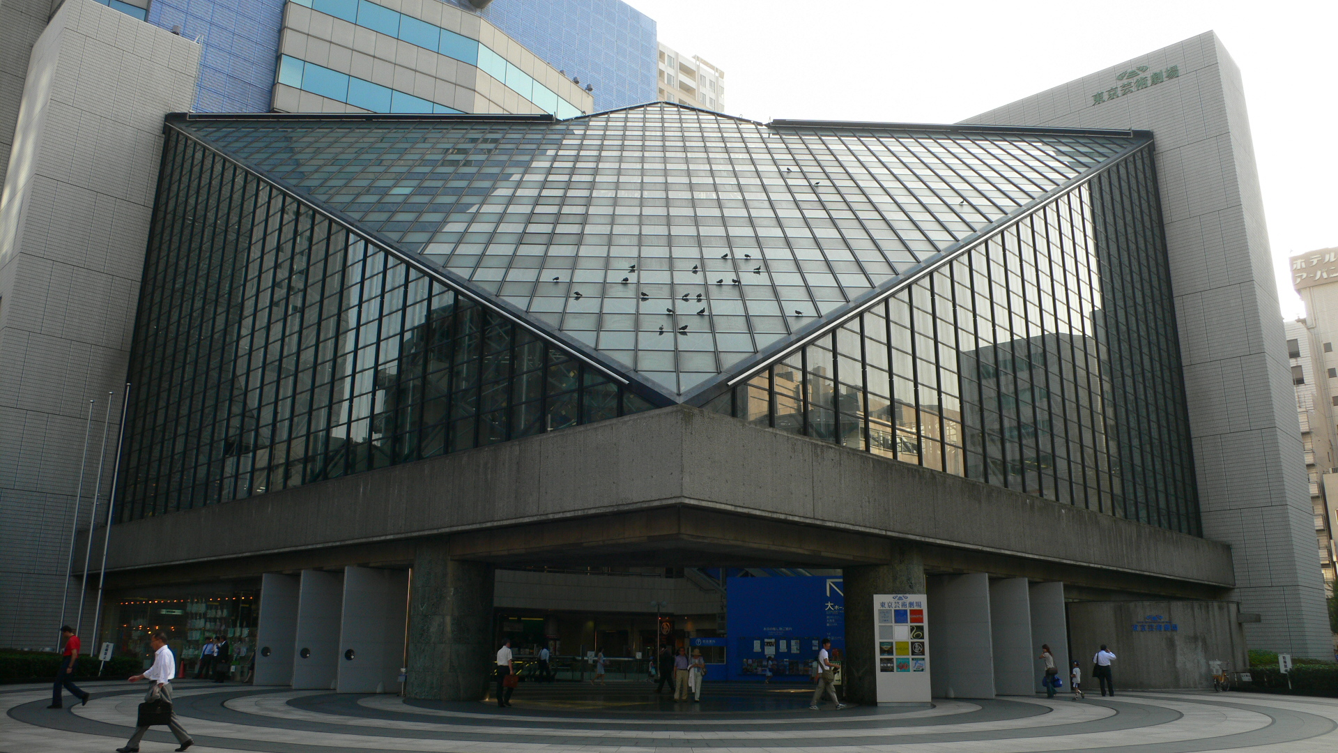 Tokyo_Metropolitan_Art_Space (東京芸術劇場)